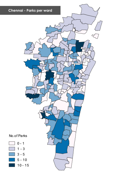 Map showing the number of parks in each ward of Chennai Corporation Area. Data Wards Outline